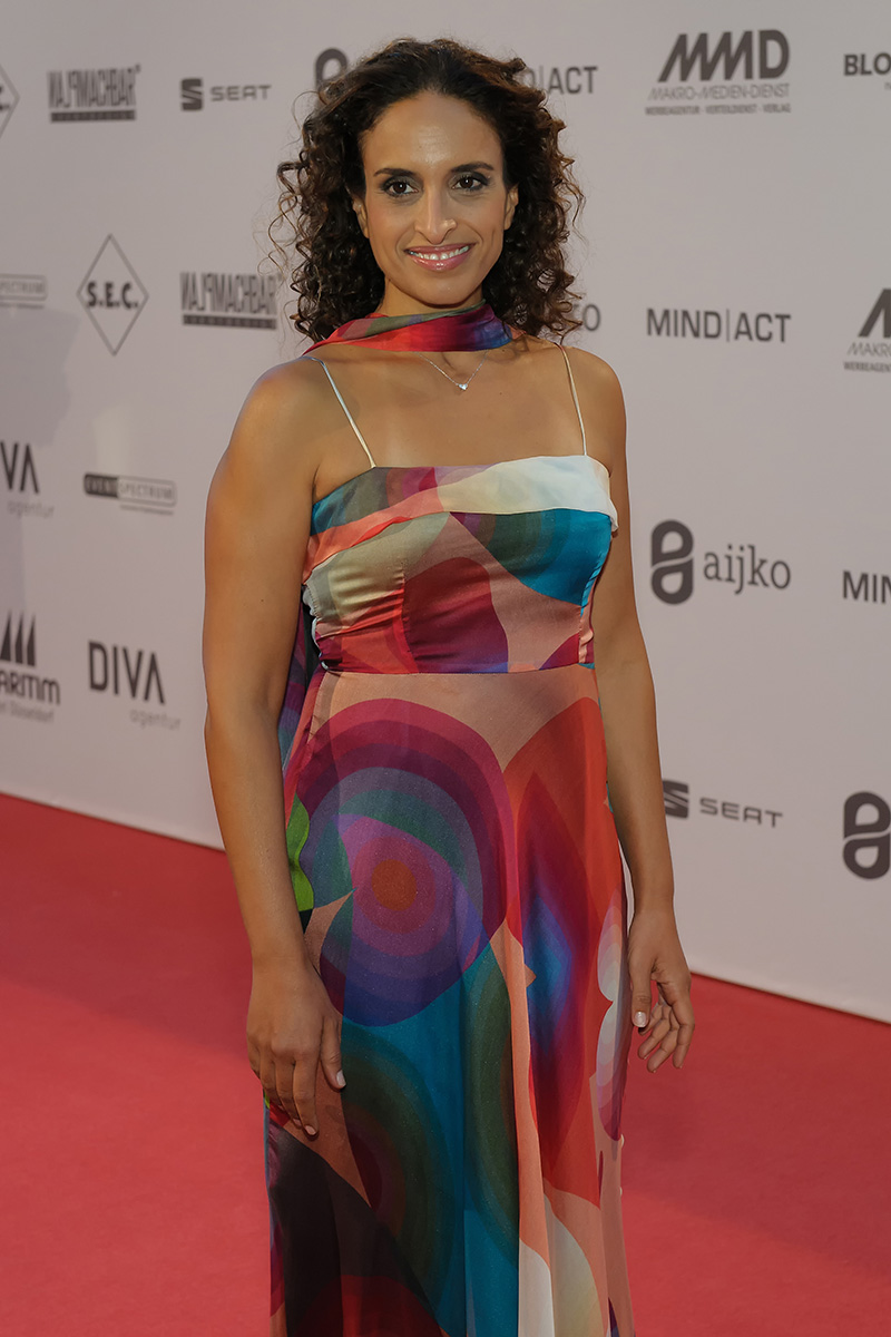 Achinoam Nini attends the 21st UNESCO Charity Gala 2012 on October 27, 2012 in Dusseldorf, Germany.